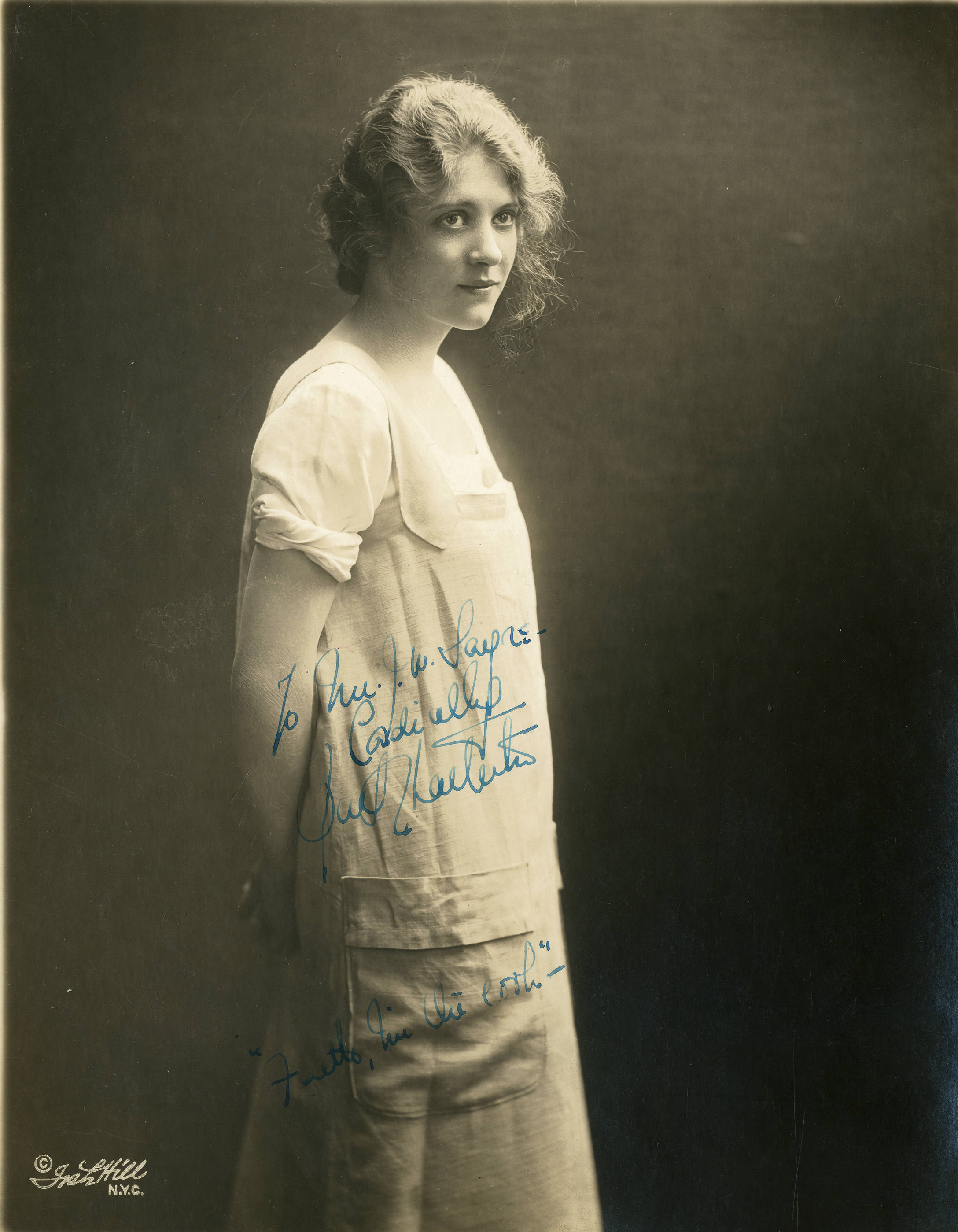 Stage actress Ruth Chatterton. Subjects: actresses, motion pictures